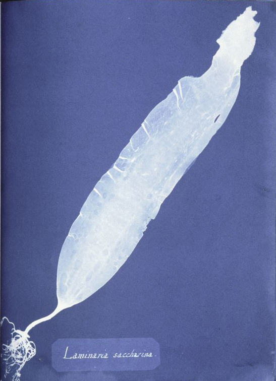 Saccharina latissima. Cyanotype photogram.